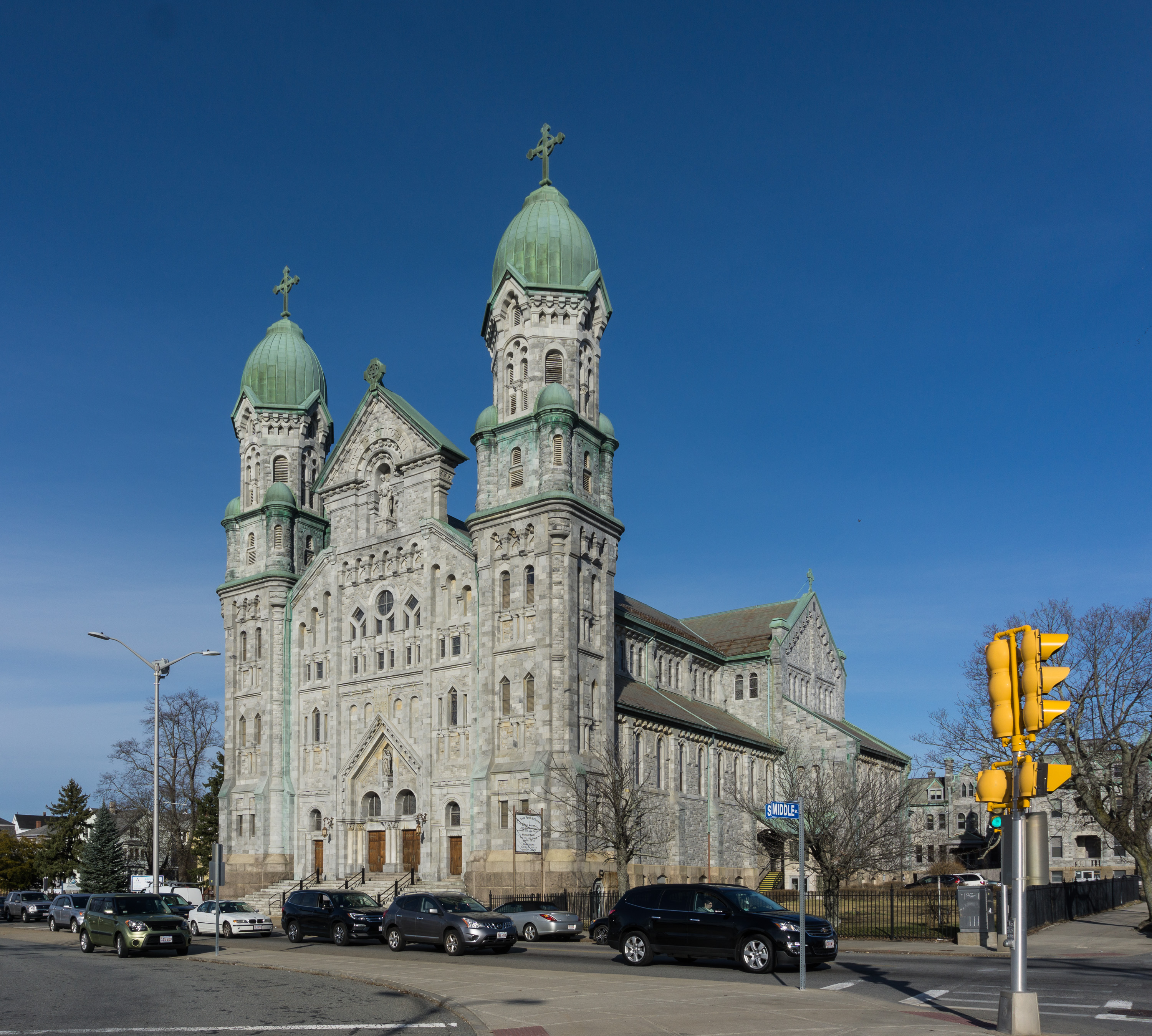 St. Anne's Church and Parish Complex, Fall River, Massachusetts.